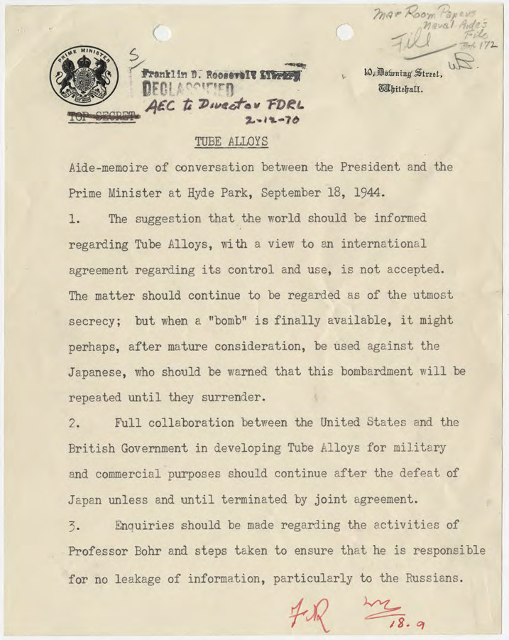 The Hyde Park Aide-Mémoire. In September 1944, Franklin Roosevelt and Winston Churchill met at Hyde Park to discuss progress on the atomic bomb project, which the British code-named 'Tube Alloys.' On 18 September they initialed this aide-memoire defining an Anglo-American agreement on the weapon's first use, postwar collaboration on atomic research, and the need to keep the project a secret from the USSR.